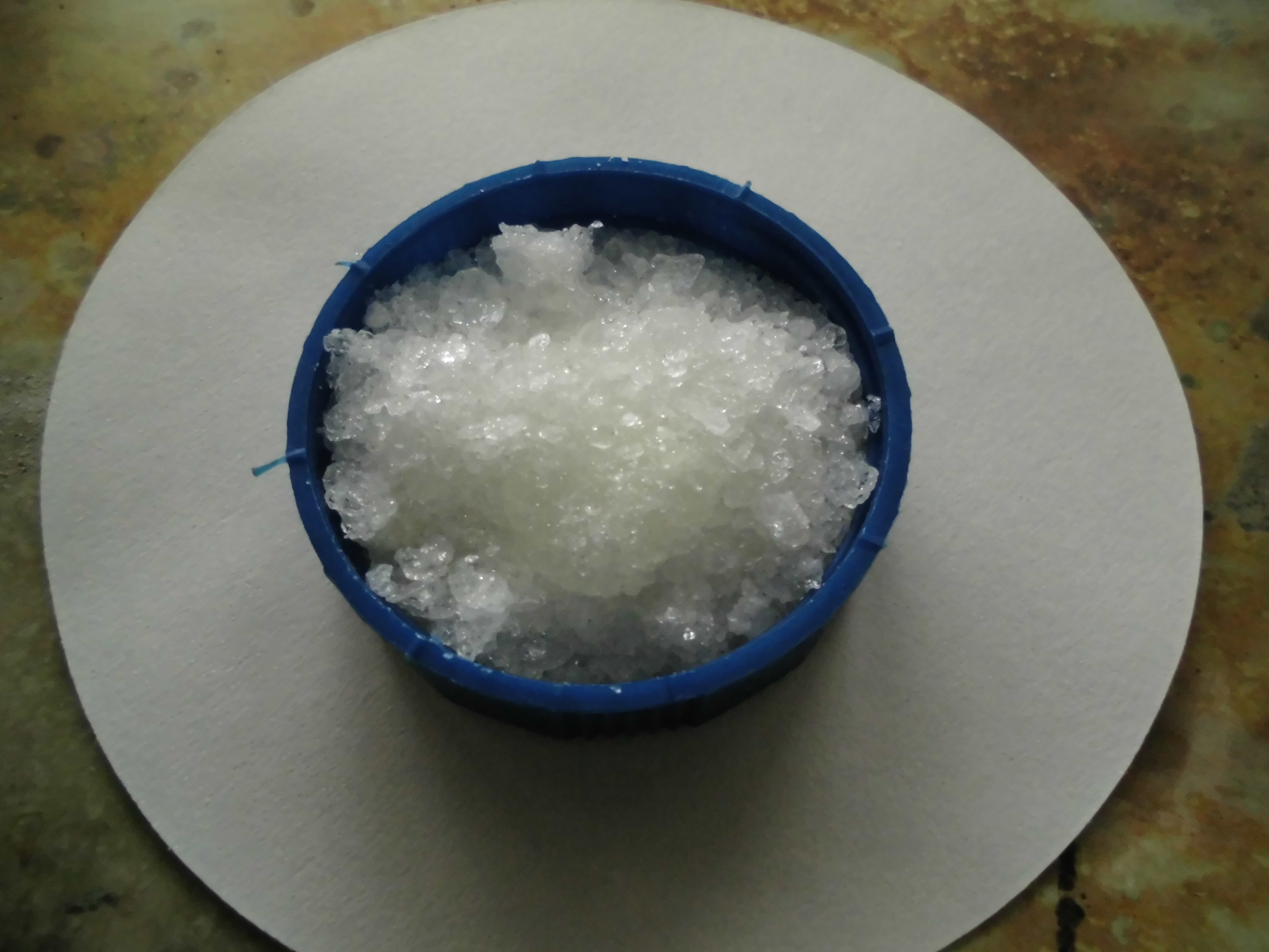 Disodium phosphate dodecahydrate.